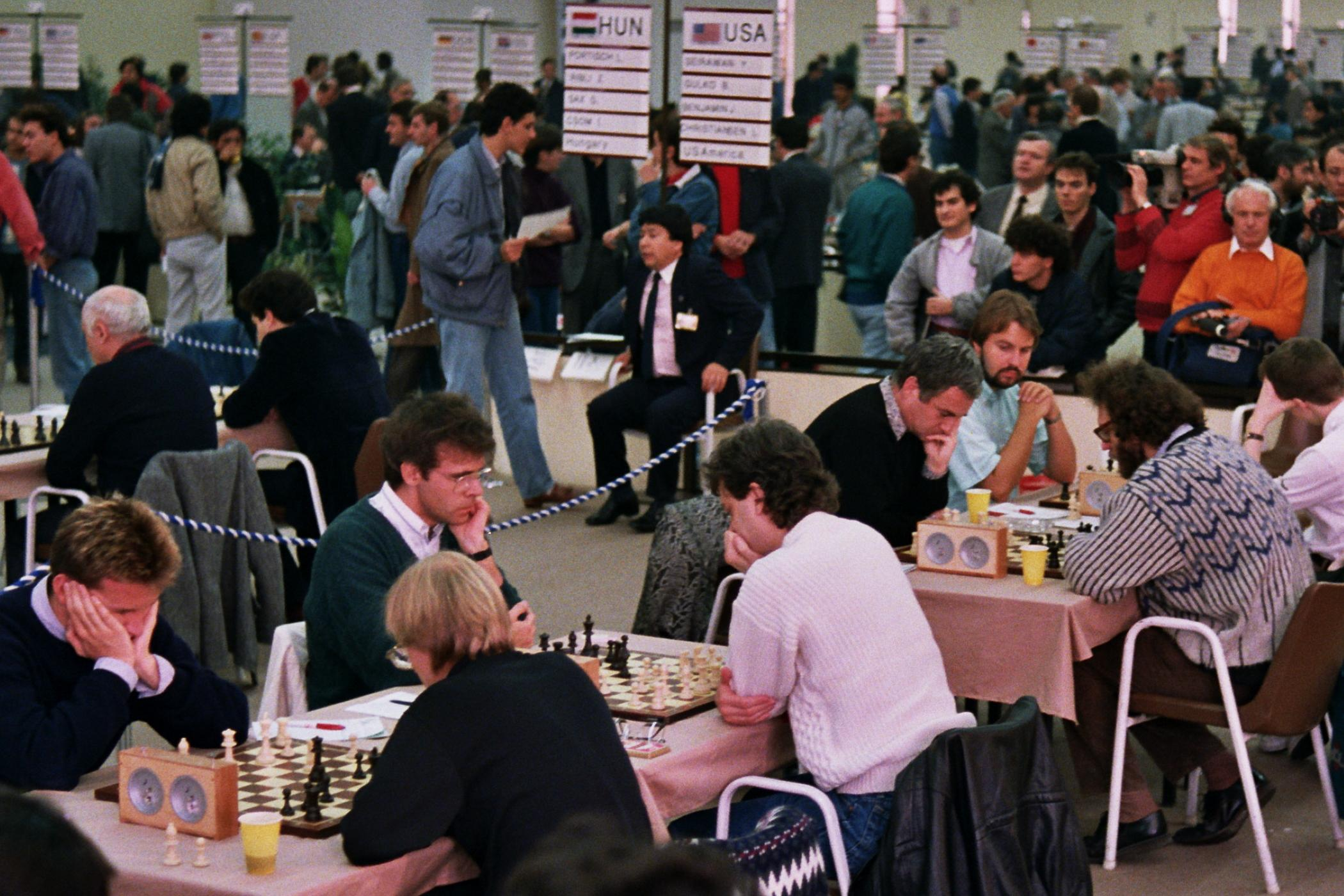 Piket, van der Sterren, Sosonko, van der Wiel, Chess Olympiad 1988 in Thessaloniki, Photographer Gerhard Hund.